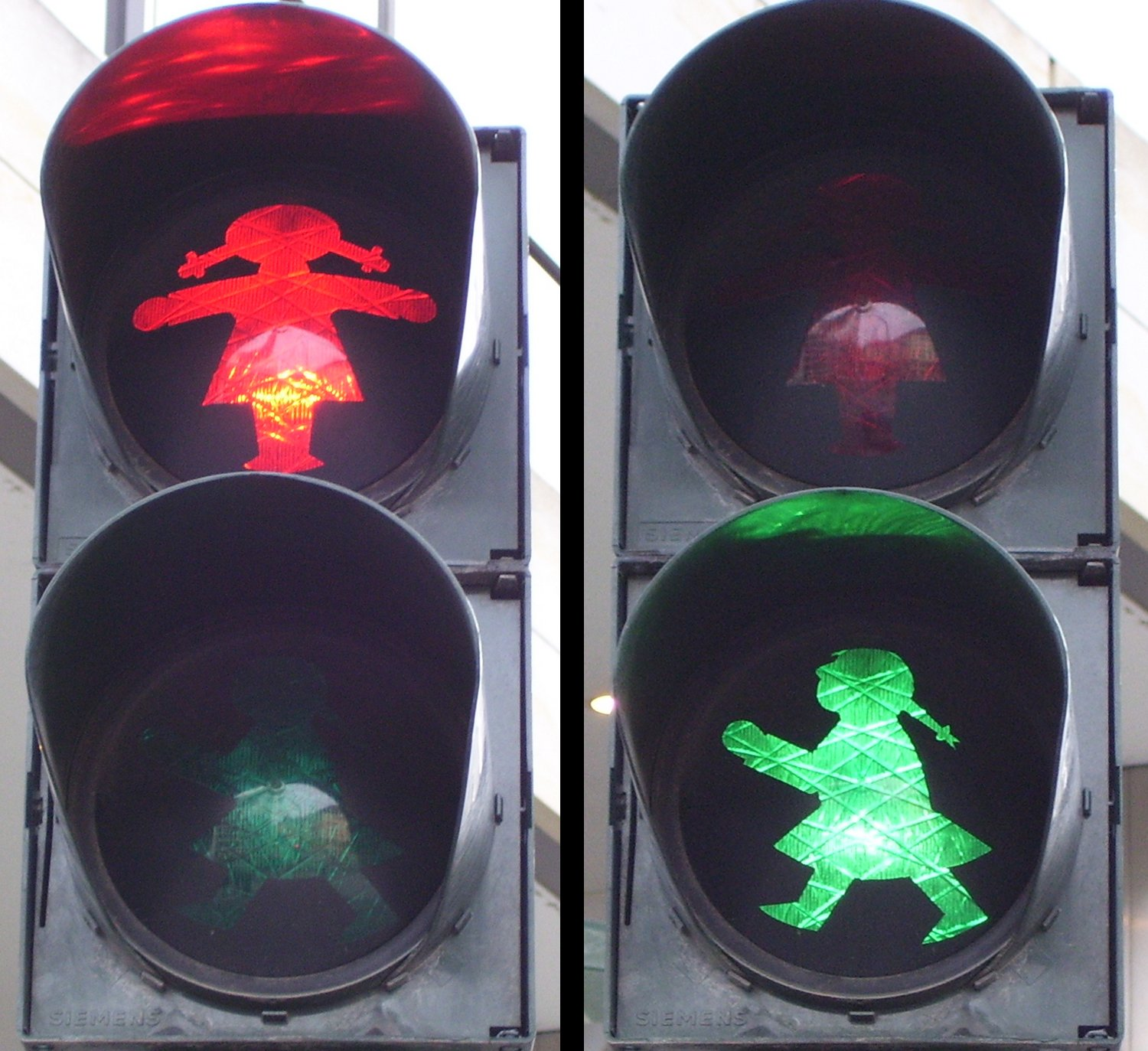 An Ampelmädchen street light at a pedestrian crossing in Dresden, Germany.